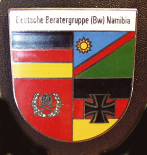 German Military Mission in Namibia